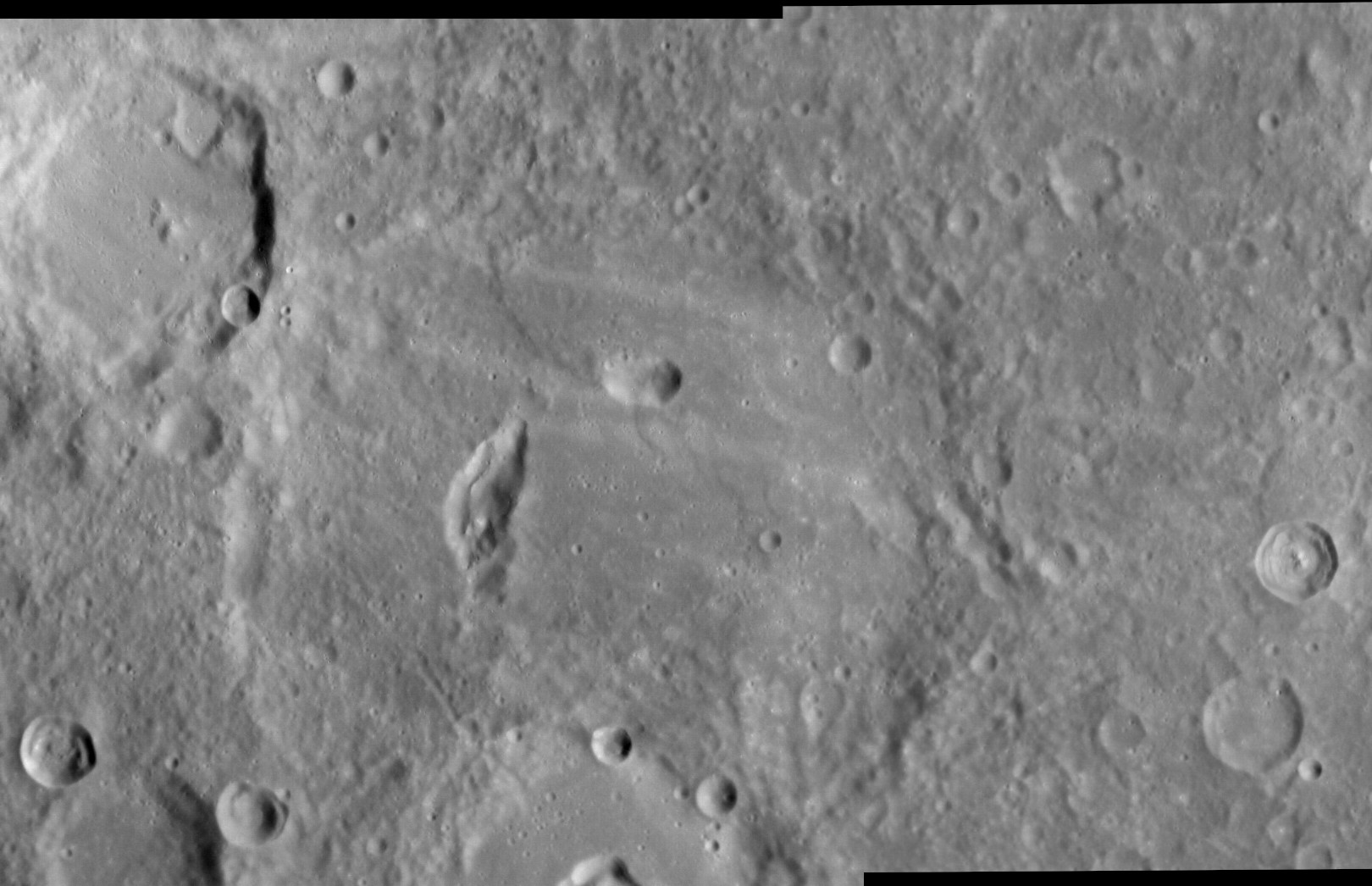 Kipling crater on Mercury. MESSENGER Narrow Angle Camera mosaic. North is at top. Width is about 280 km. Statistics for left image are: Emission Angle: 9.7 Incidence Angle: 58.5 Latitude: -19.0 Longitude: 71.1 Phase Angle: 48.8